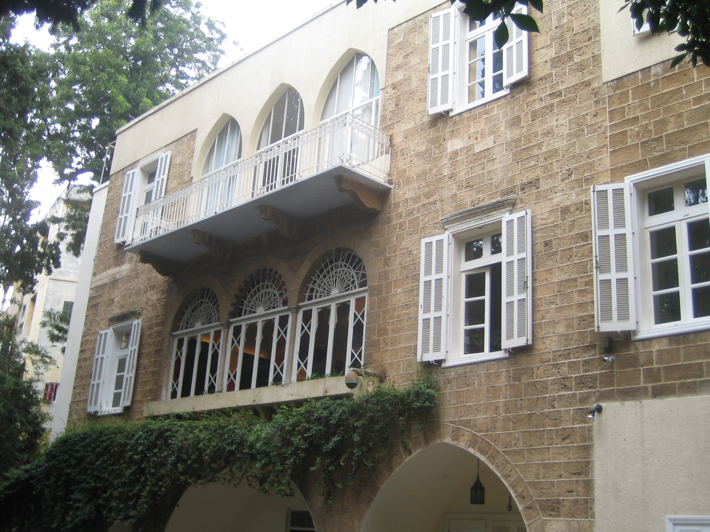 Orient-Institut Beirut from the outside